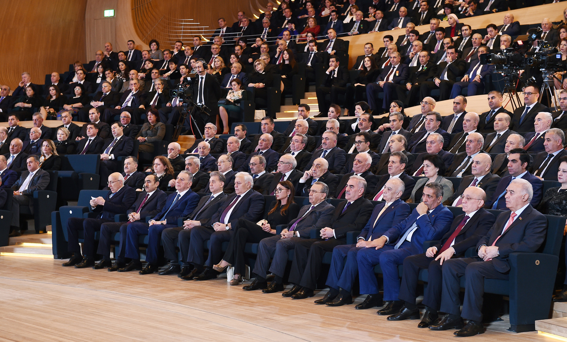 6th Congress of New Azerbaijan Party held in Baкu